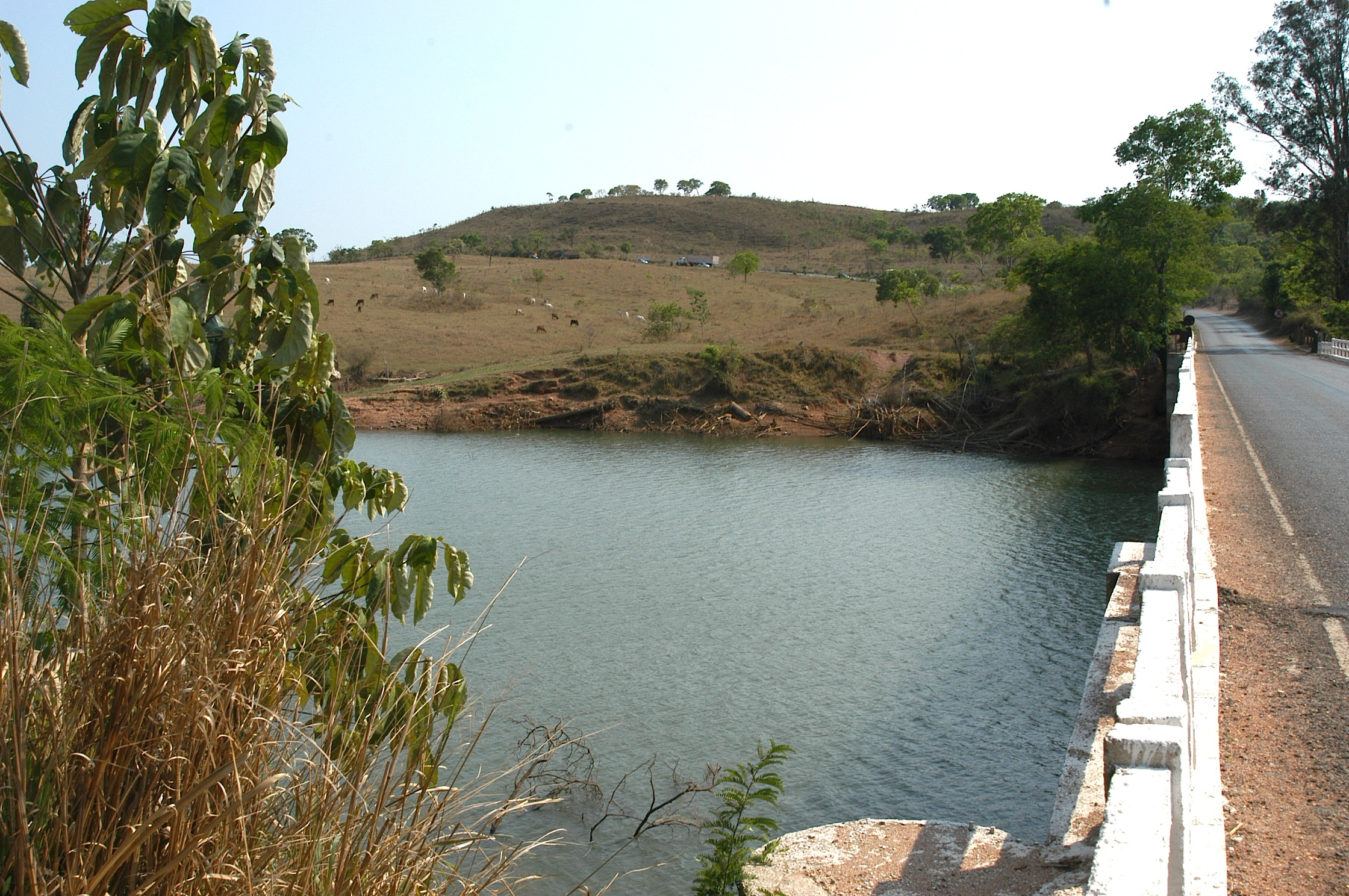 brasilian road - bridge over corumba river